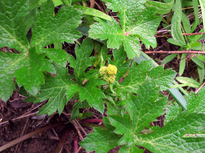 Sanicula crassicaulis. Santa Monica Mountains National Recreation Area, California, USA. Taken at Circle X Ranch: Grotto Trail. NPS photo, no copyright.